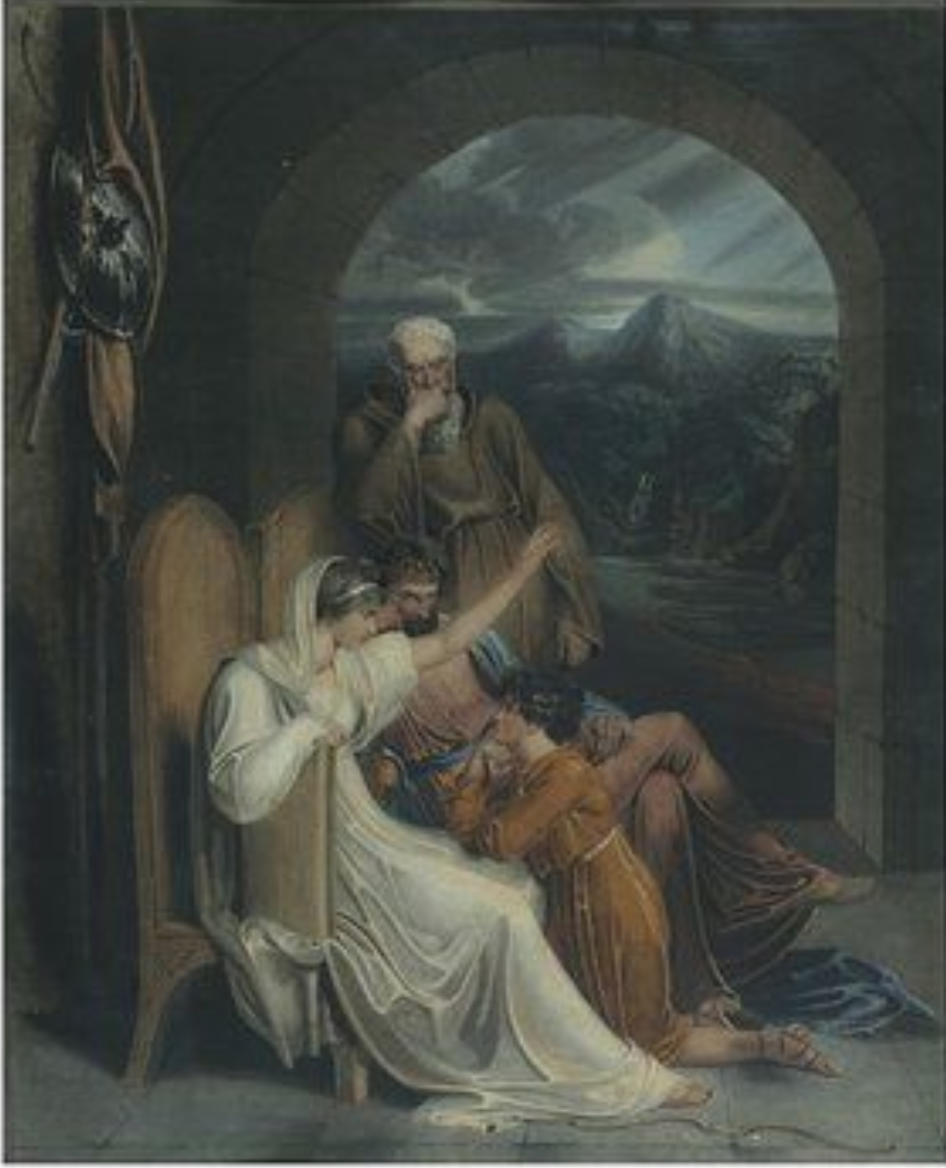 "Queen Judith Relating to Alfred the Great When a Child the Song of the Bards, Describing the Heroic Deeds of his Ancestors"